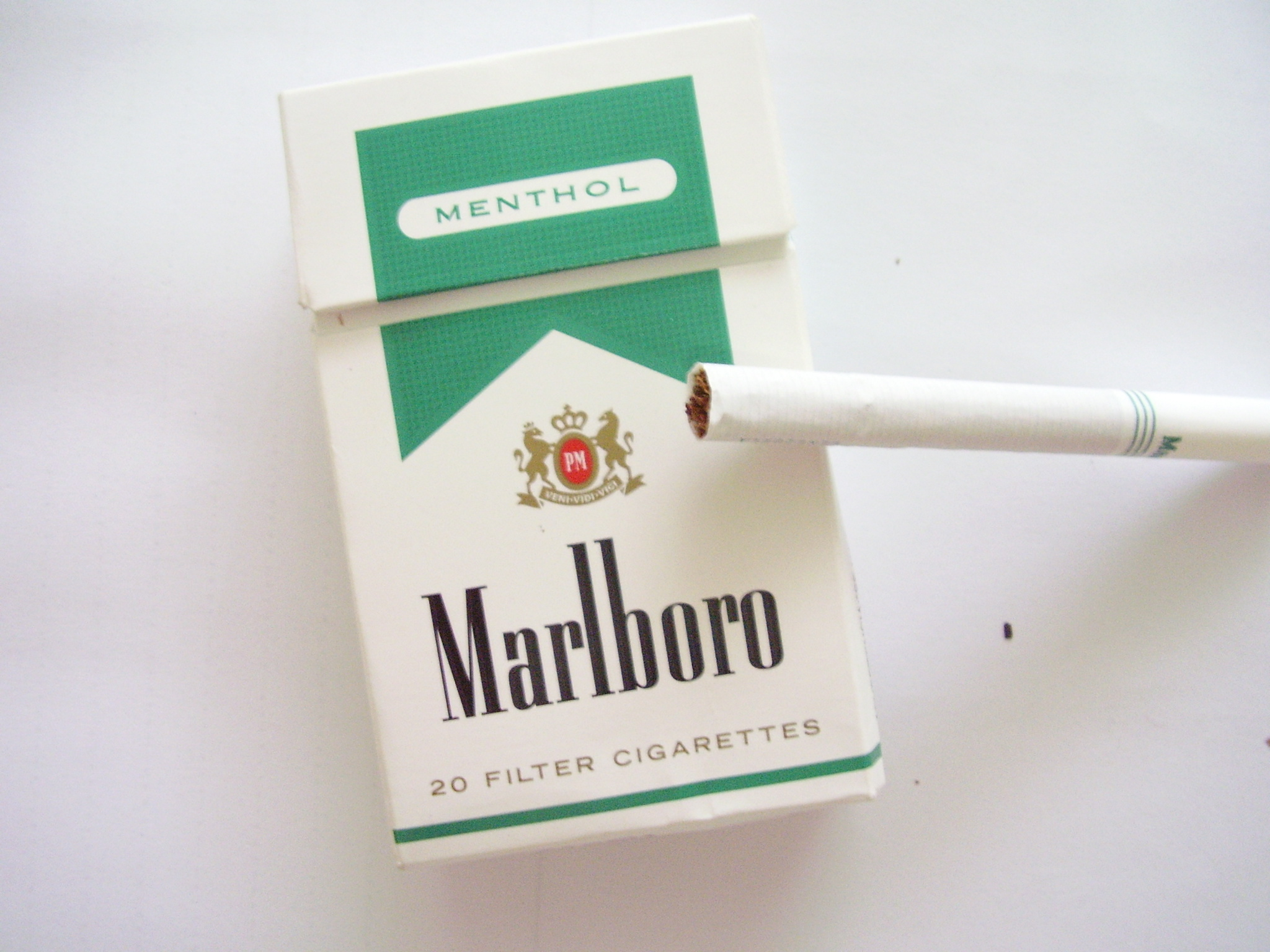 Picture of a box of Venezuelan Marlboro Menthol Lite filtered cigarettes.